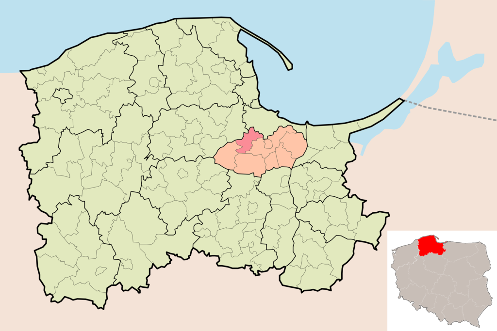 Locator map for communes (gmina) in pomorskie, with powiat highlighted Map - PL - powiat gdanski - Kolbudy.PNG